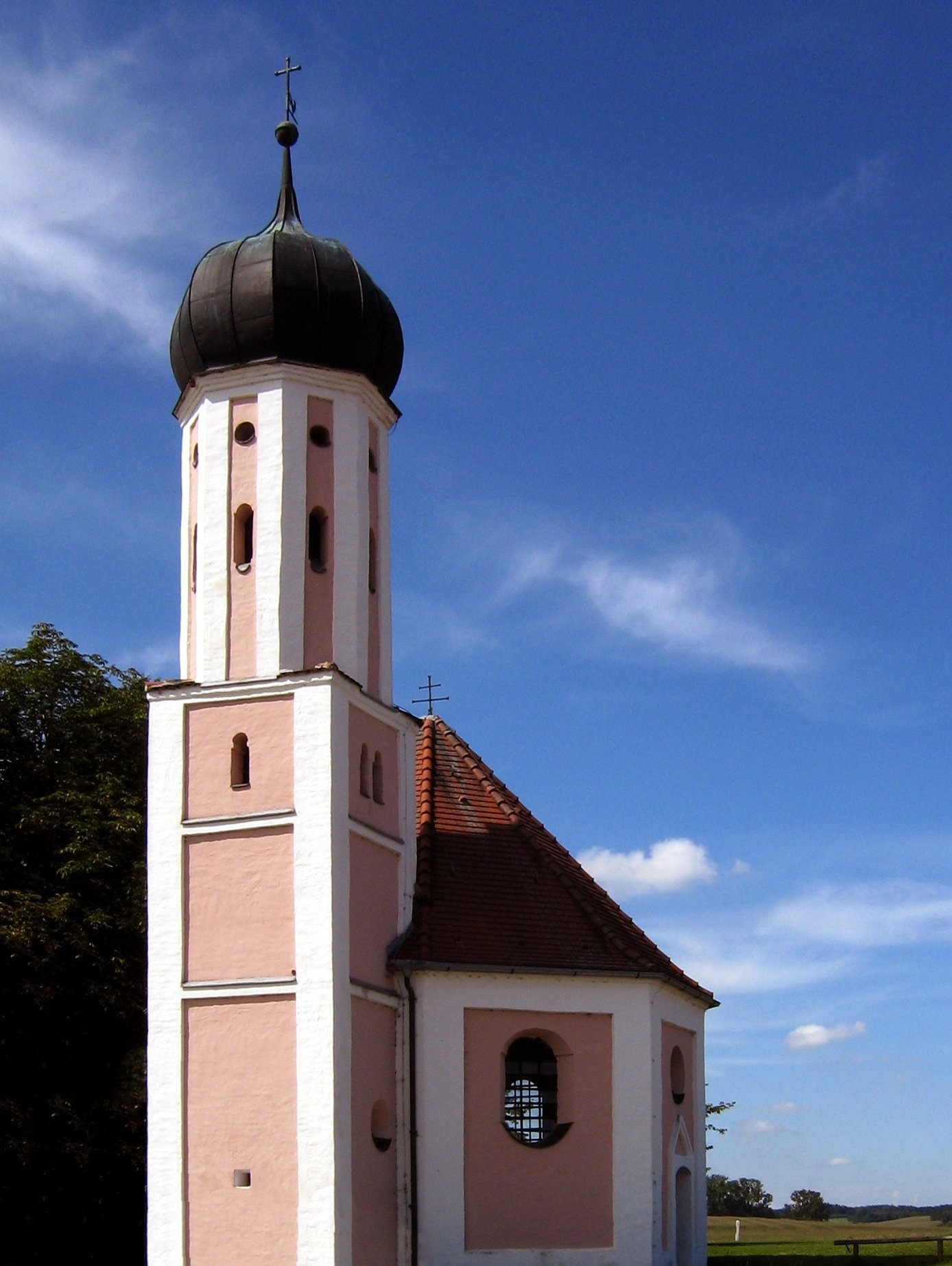 St. Salvator Chapel, near Adelzhausen, Germany